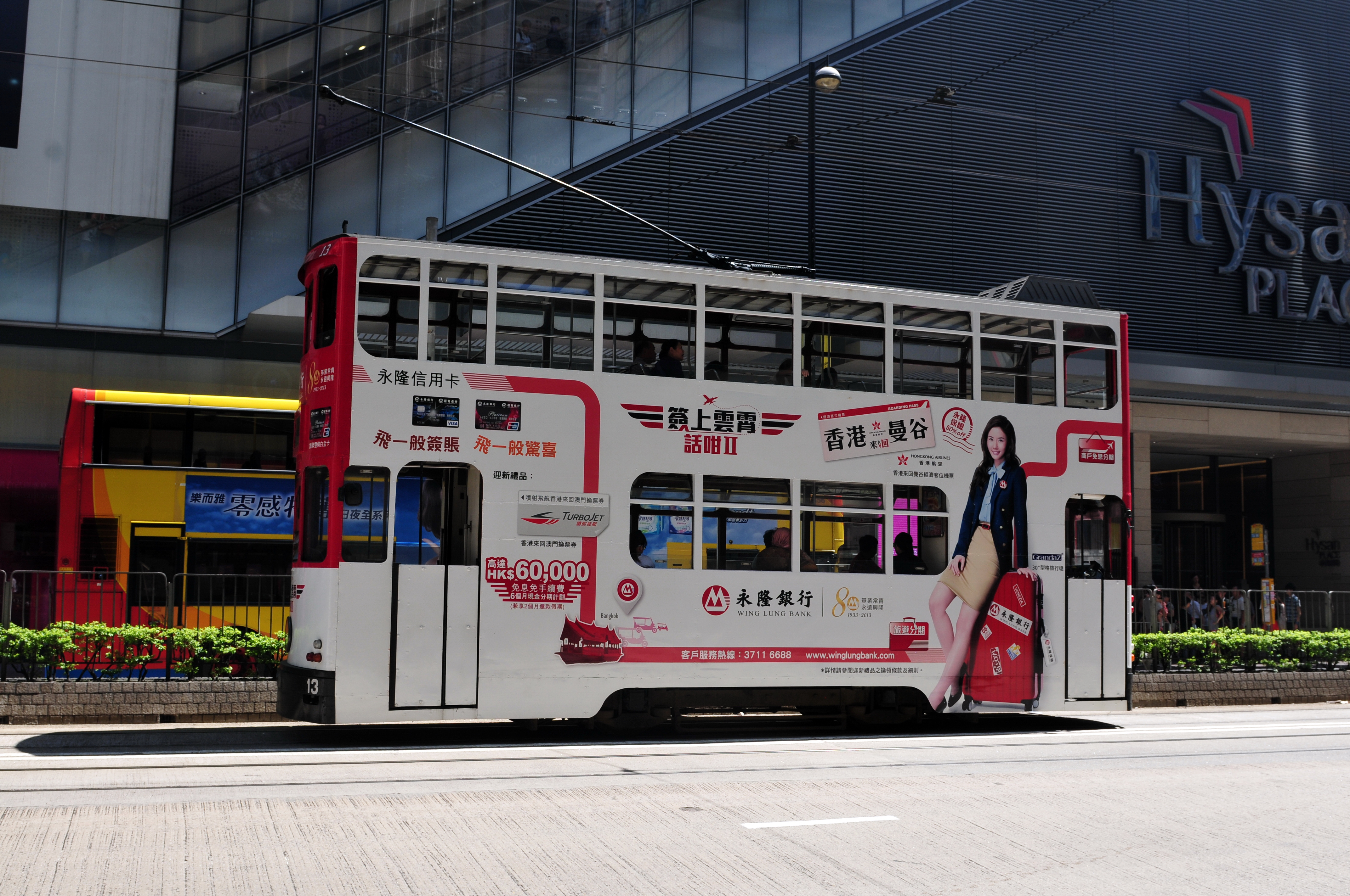 Tram Nr. 13 in Hong Kong